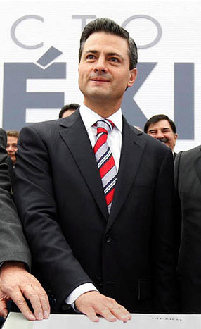 Signing of the Mexico Pact between President of Mexico Enrique Peña Nieto and the different political parties' representatives.